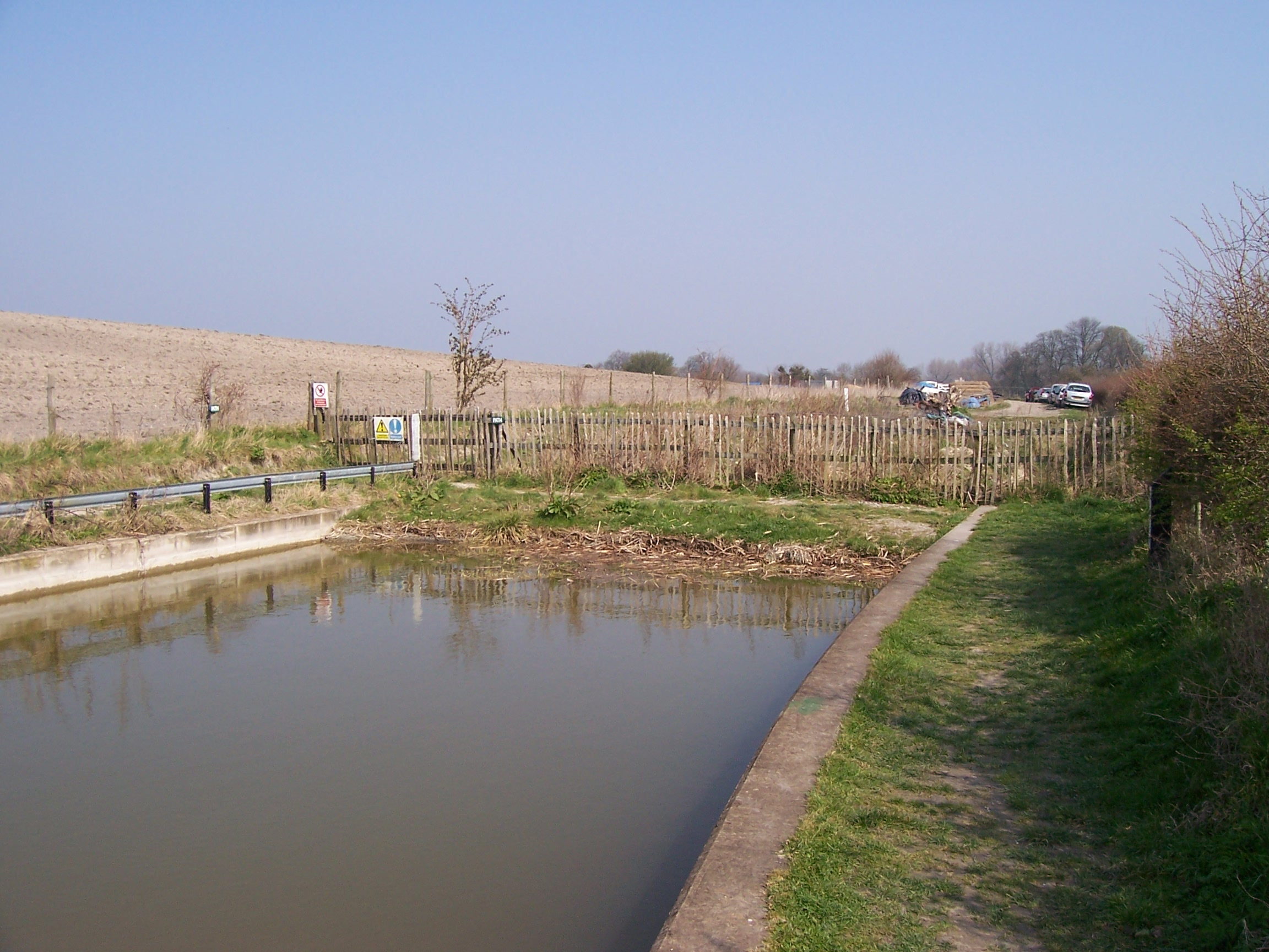 Wendover Canal; End of Phase 1 as 0f 02/04/2007